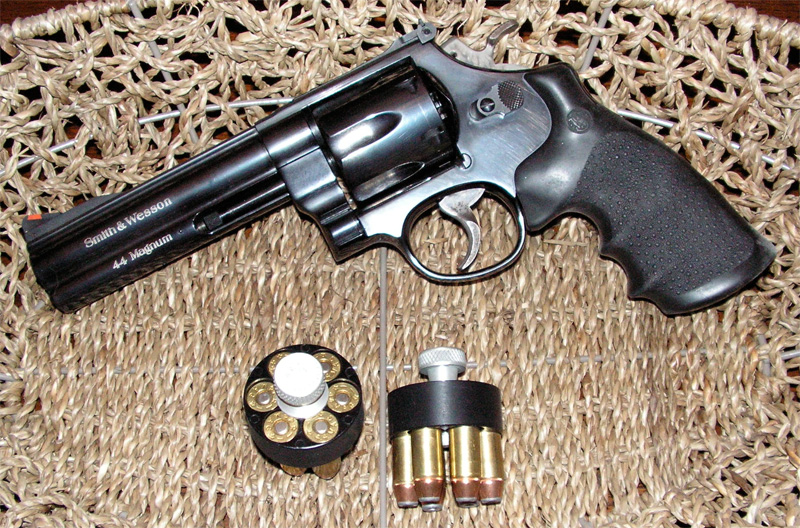 Picture of a Model 29 Classic with 5" full underlug barrel in blued steel, taken from a private collection.